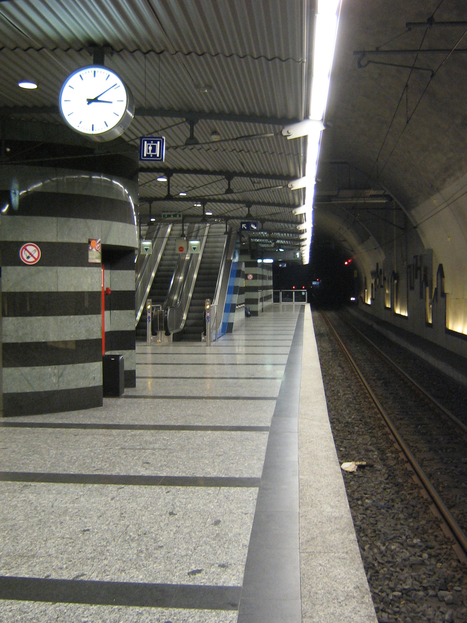 Bottom floor of the station where are the trains access, view of the line 1.